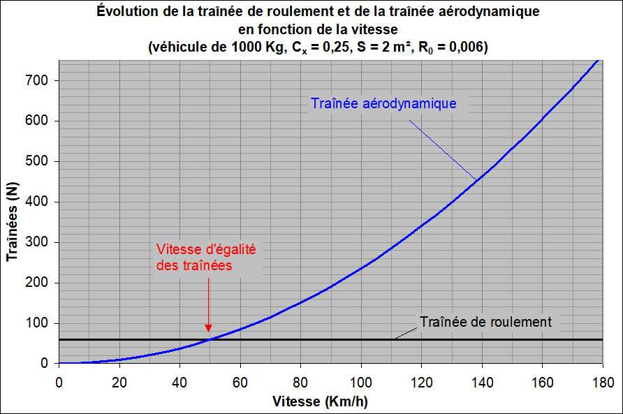 Crossing of aerodynamic and rolling drags.